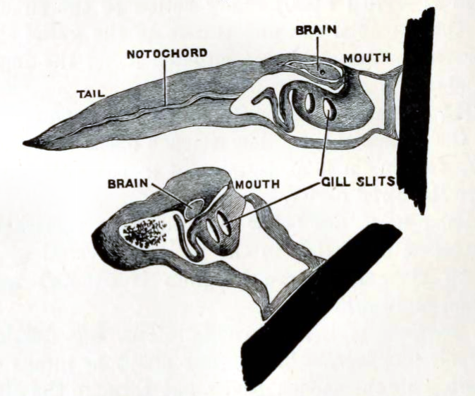 Degeneration of an ascidian tadpole to form the adult. The black pieces represent the rock or stone to which the tadpole has fixed its head.